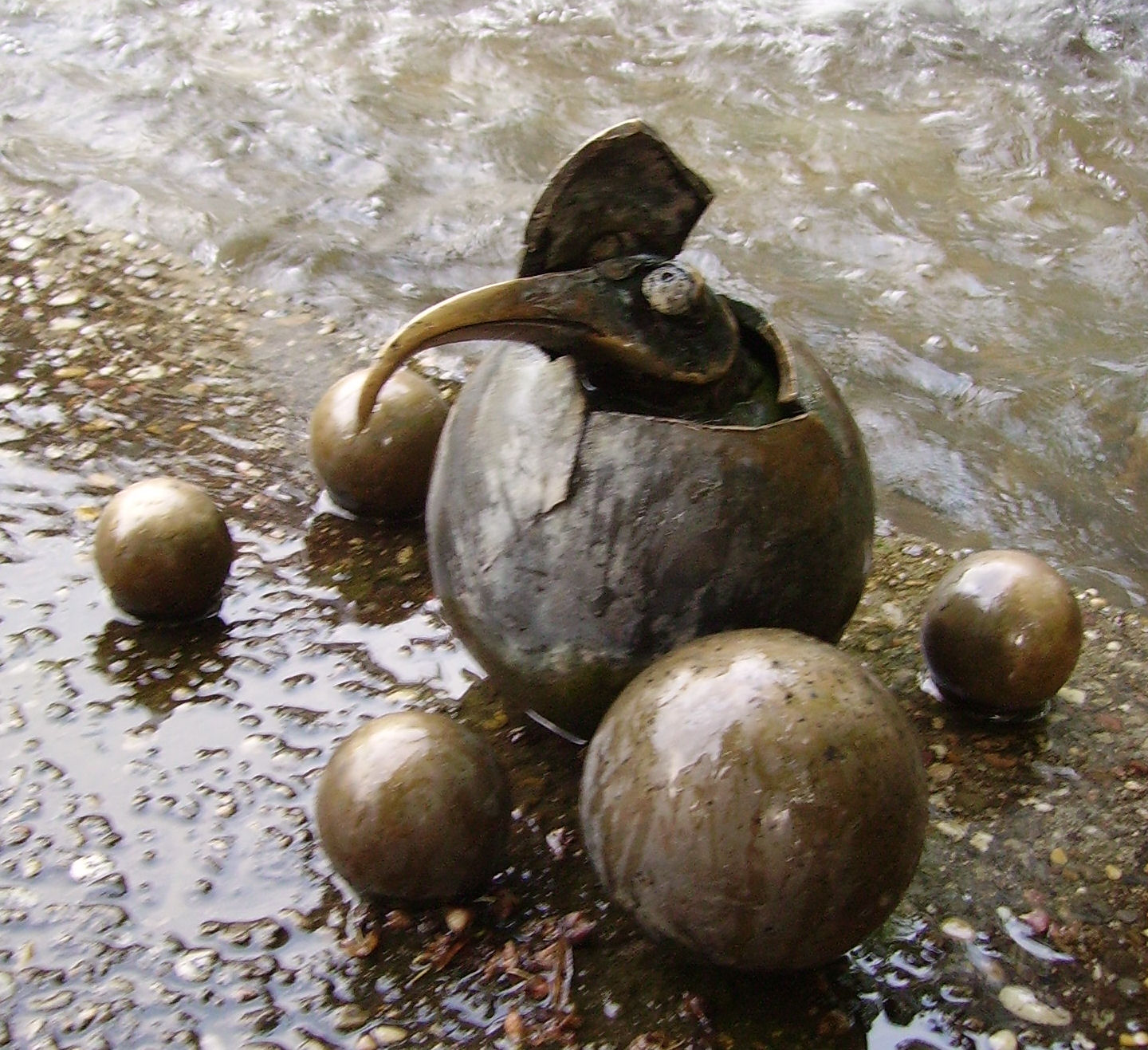 fountain in Neustadt an der Weinstraße, Germany